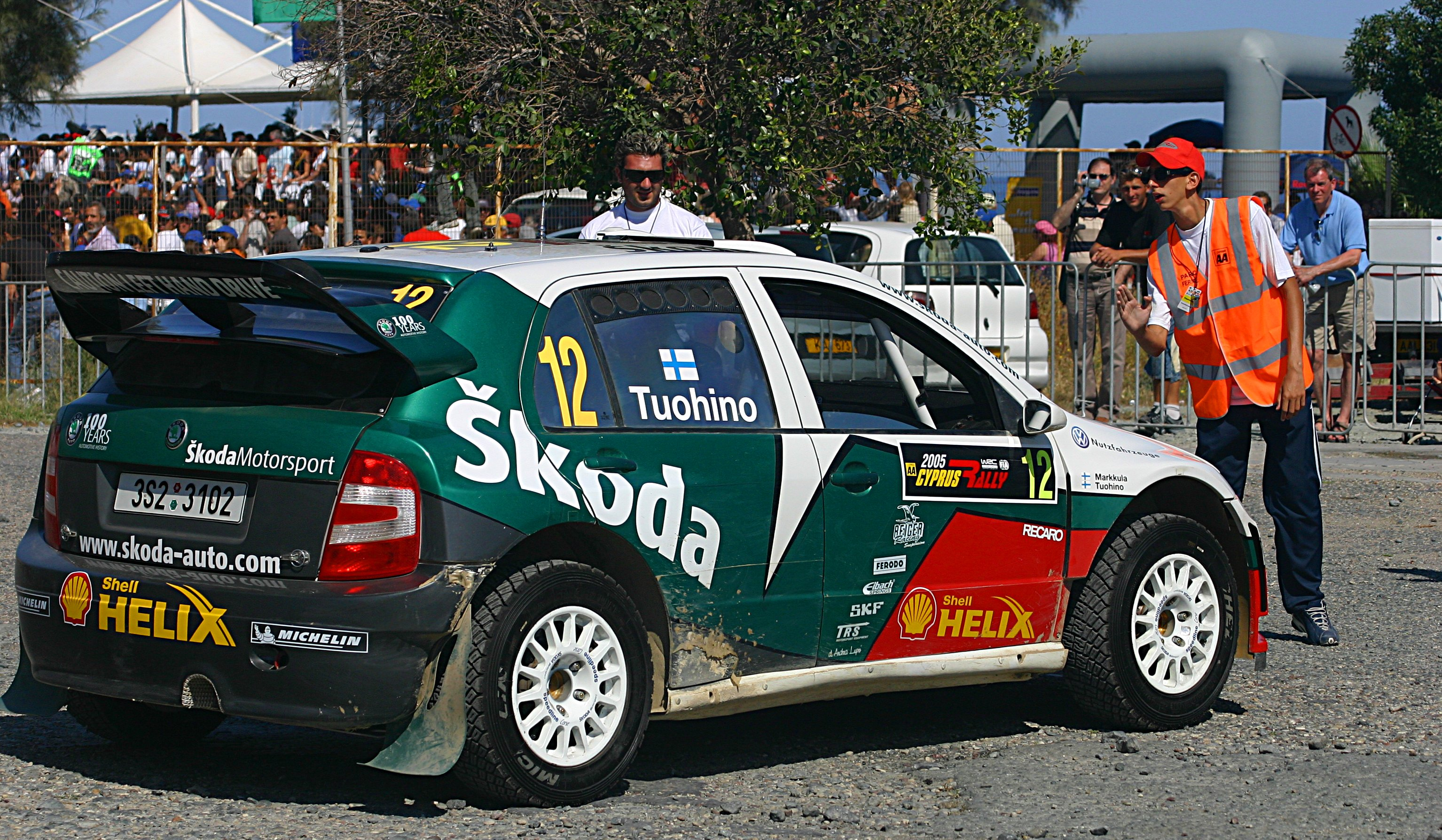 Škoda Fabia WRC (Janne Tuohino/Mikko Markkula) in Limassol, Cyprus, Greek Cypriot Rep. - Cyprus Rally 2005